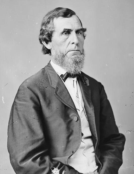 U.S. Secretary of the Interior Columbus Delano.